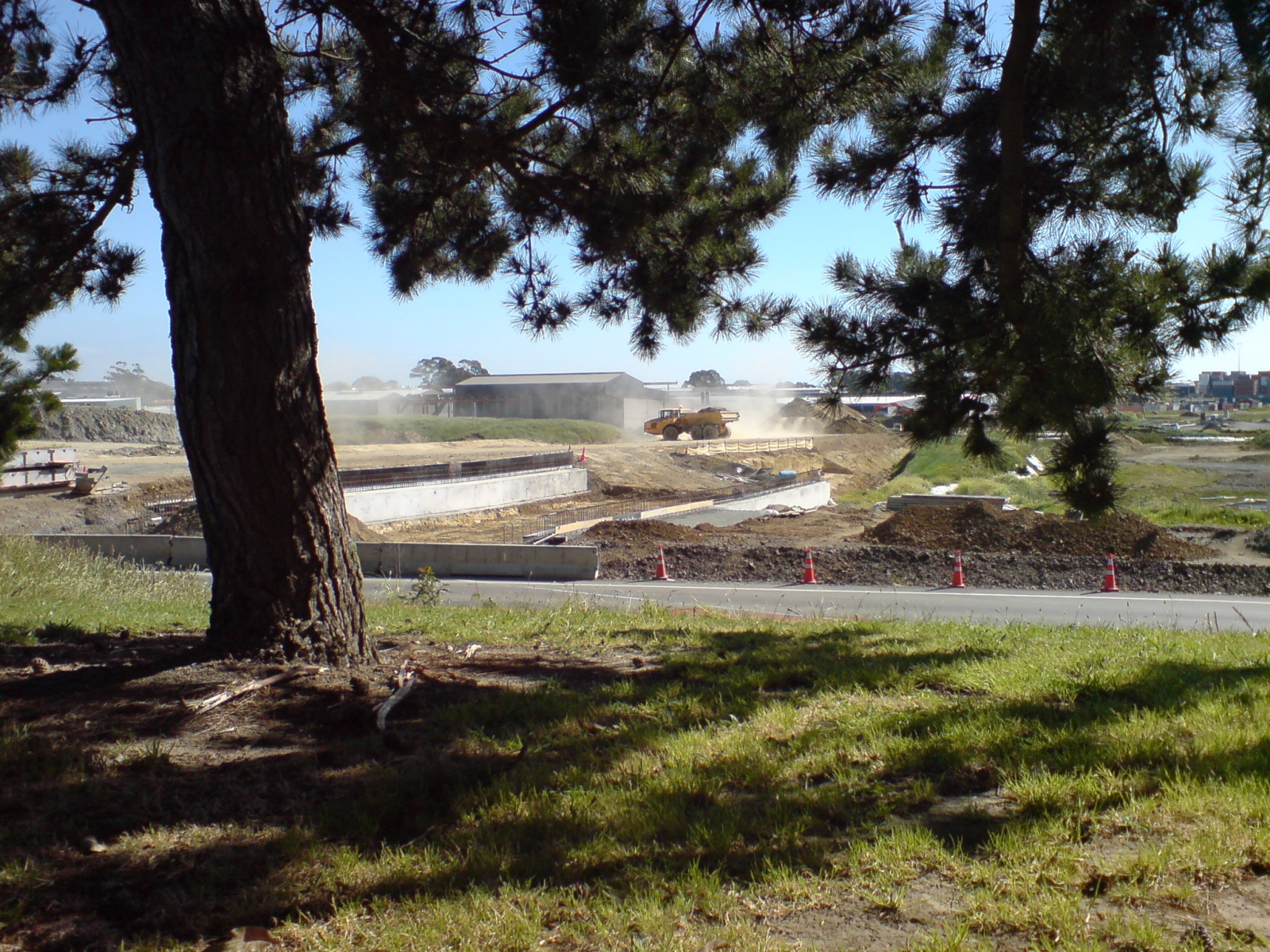 Earthworks and construction just west of Manukau City's Centre, New Zealand. Enabling works for the Manukau Branch rail line while building the motorway connection between State Highways 20 and 1.